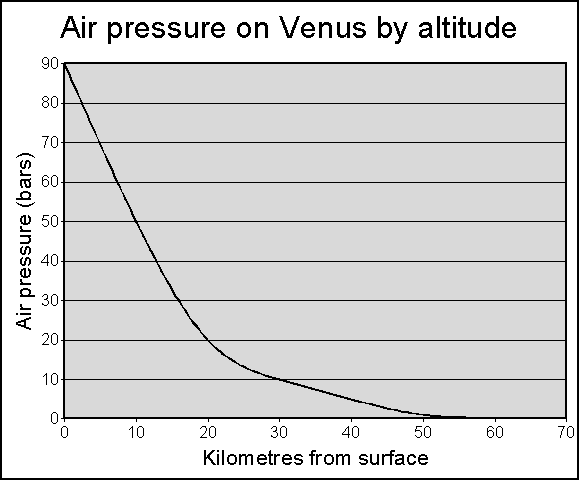 Air pressure on the planet Venus by altitude.